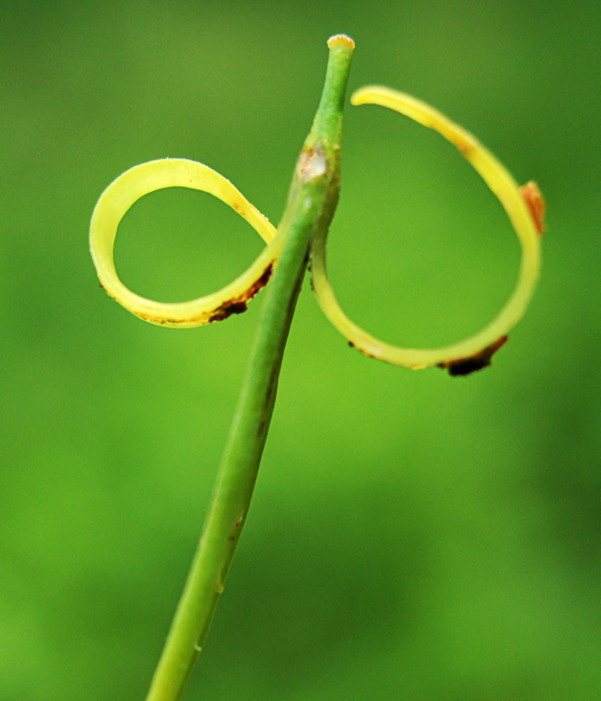 Name: Cardamine pratensis, pod. Family: Brassicaceae. Location: Münster, NRW, Germany